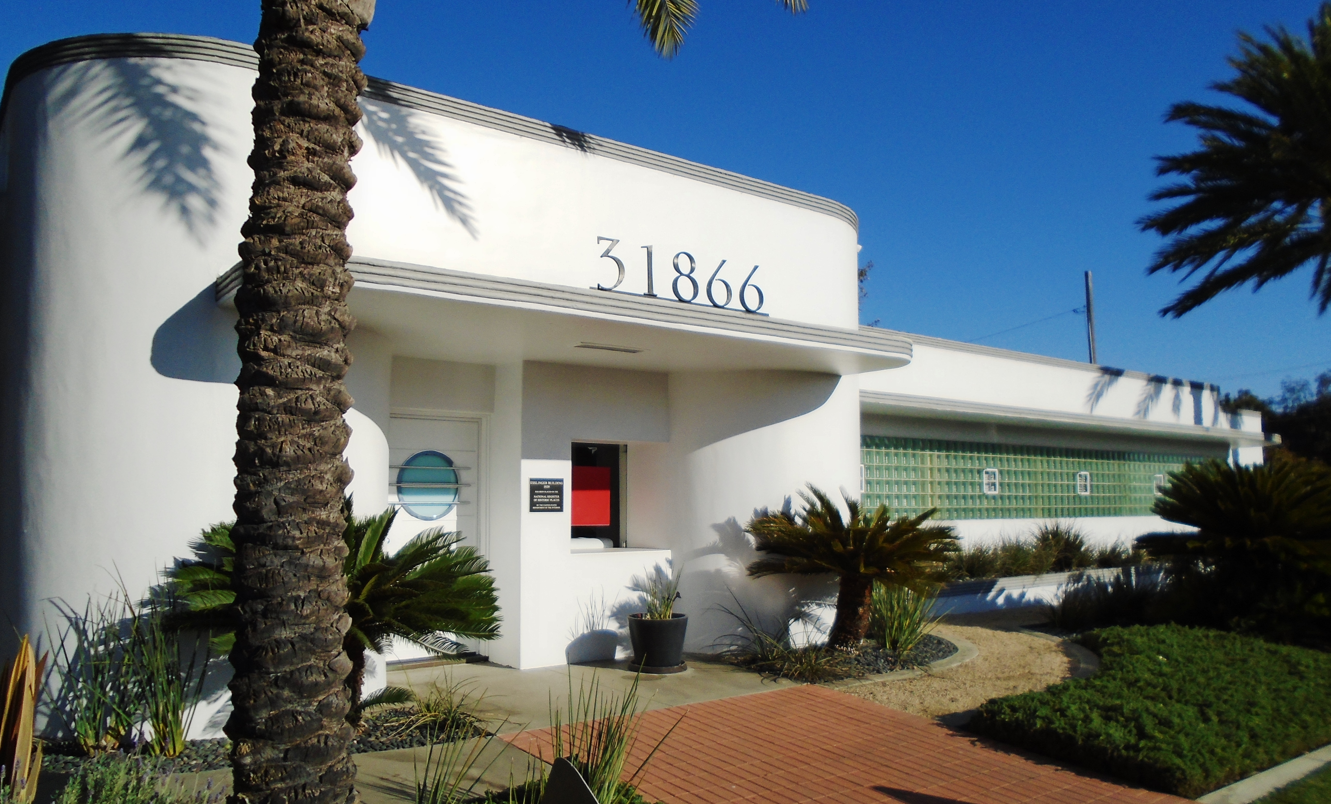 The Esslinger Building is a one-story streamline moderne style office building at 31866 Camino Capistrano in San Juan Capistrano, California, was built in 1938. It was designed by Dr. Paul H. Esslinger for medical offices. It was listed on the National Register of Historic Places in 1988.